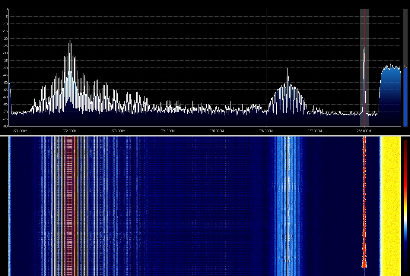 RF Spectrogram and Waterfall of an actual PAL-I transmission screenshot captured with SDRSharp software and an Airspy SDR Luma carrier @ 272MHz, Chroma carrier @ 276.43361875MHz, FM audio @ 278MHz, NICAM audio @ 278.5MHz